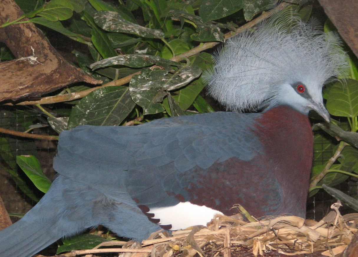 Scheepmakers Kroonduif, Southern Crowned Pigeon, Goura scheepmakeri, Diergaarde Blijdorp, Rotterdam, december 2007. Remark: The Southern Crowned Pigeon was split into two species. This is Sclater's Crowned Pigeon (Goura sclaterii)